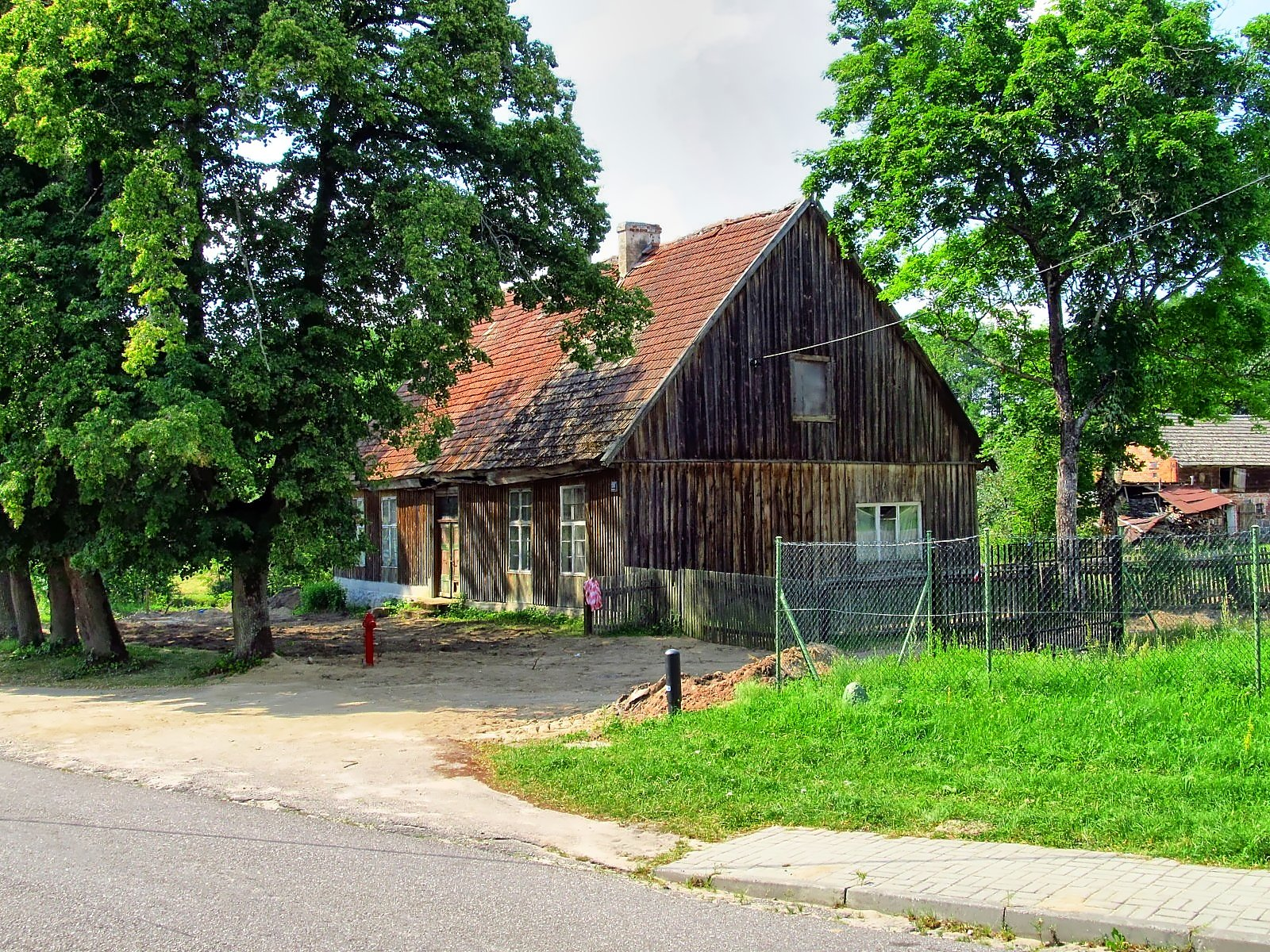 Borsk, The old cabin